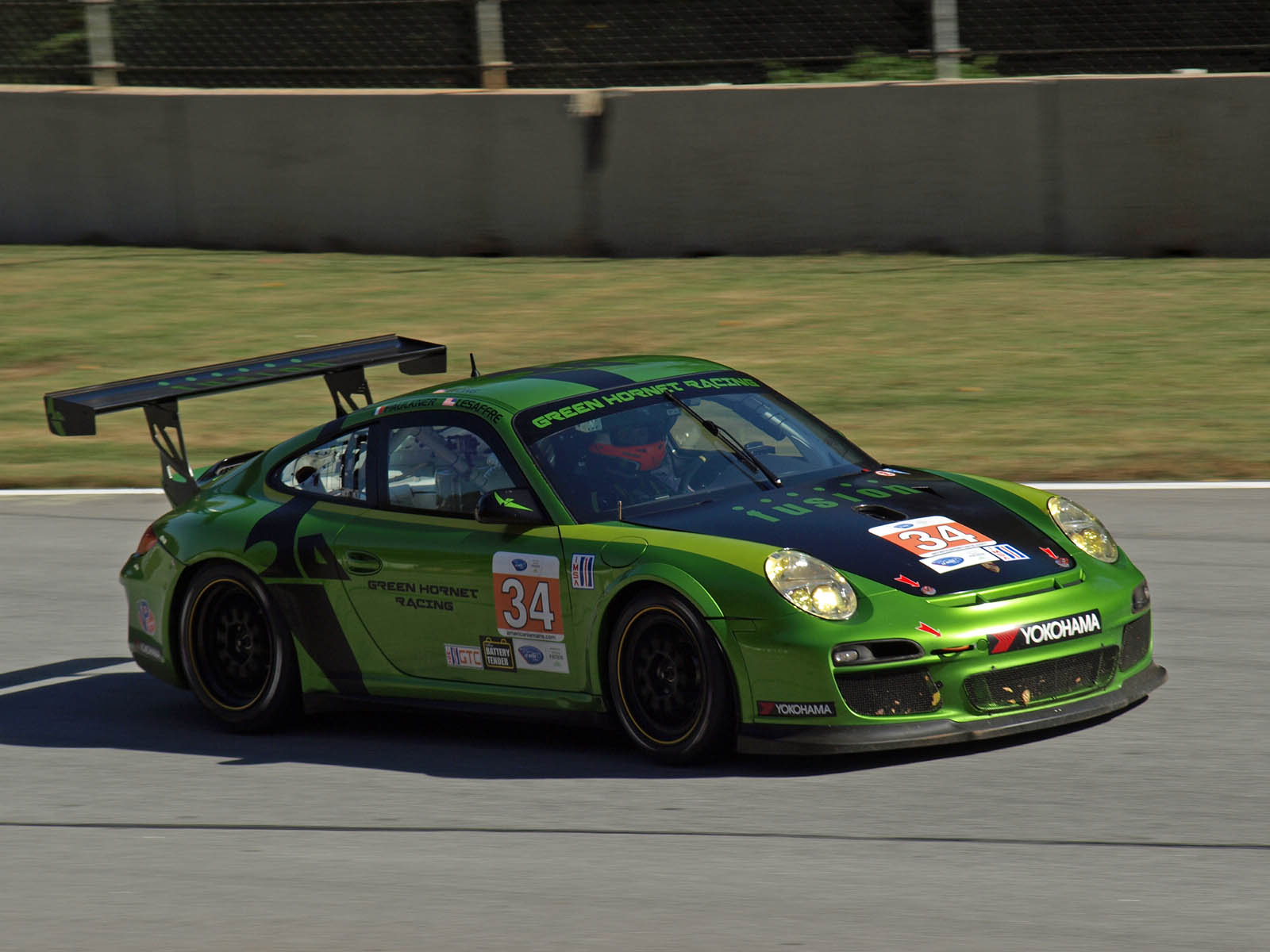 Damien Faulkner in the Green Hornet Racing Porsche 997 GT3 Cup during qualifying for the 2012 Petit Le Mans